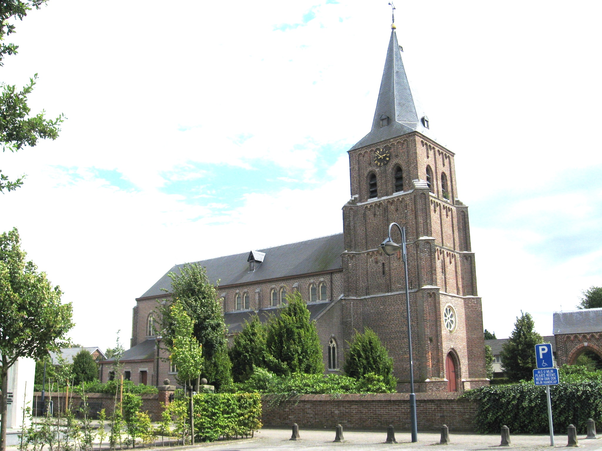 Church of Saint Trudo in Grote-Brogel, Peer, Limburg, Belgium